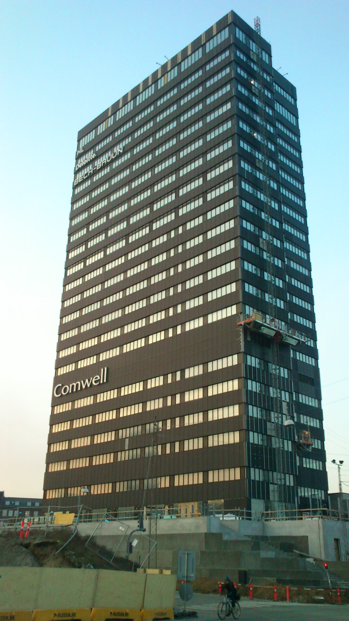 The Aarhus City Tower from the south. The building is clad in solar panels.